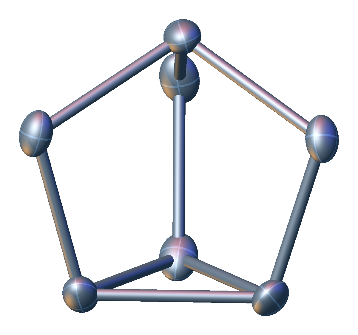 structure of As7 trianion as reported in "New compounds with (As7)(3-) clusters: synthesis and crystal structures of the Zintl phases Cs2NaAs7, Cs4ZnAs14 and Cs4CdAs14 He, Hua; Tyson, C.-T.; Bobev, S. Crystals 2011, p87-p98